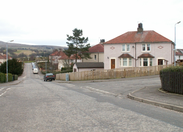 St Mirren's Rd, Kilsyth. St Mirren's Rd, Kilsyth typical housing for much of this square